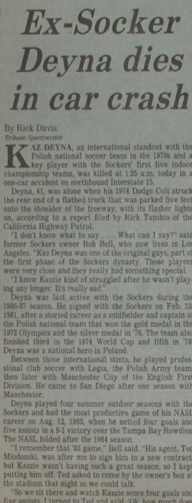 Nagłowek jednej z lokalnych gazet w San Diego z dnia 1 września 1989 r. Informujący o śmiertelnym wypadku Kazimierza Deyny